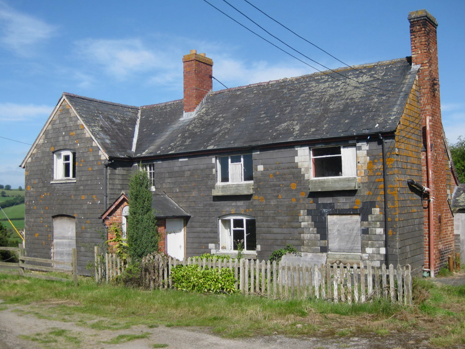 Upper Pengelli, Kerry is a small mid 19th century model farm in Kerry Montgomeryshire